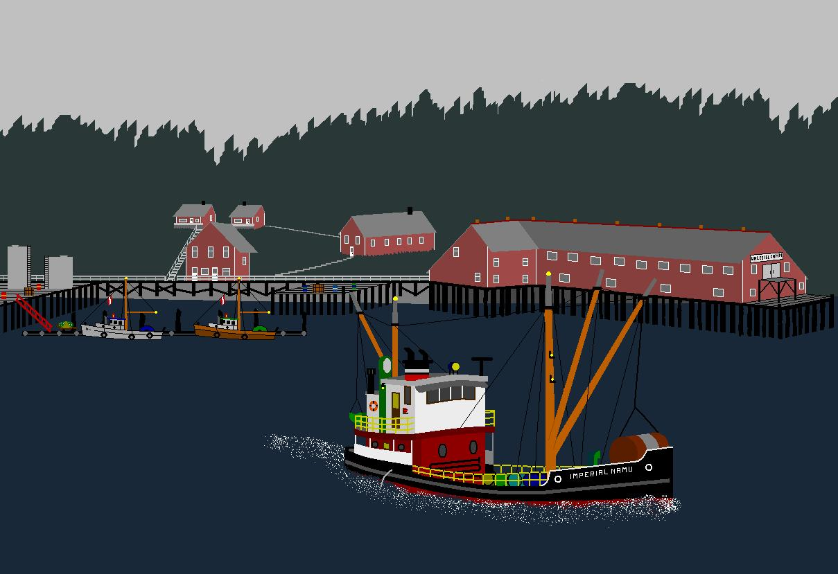 I alone created this image in March, 2008 and am the copyright holder Cardena (talk) 03:52, 27 July 2009 (UTC)Cardena